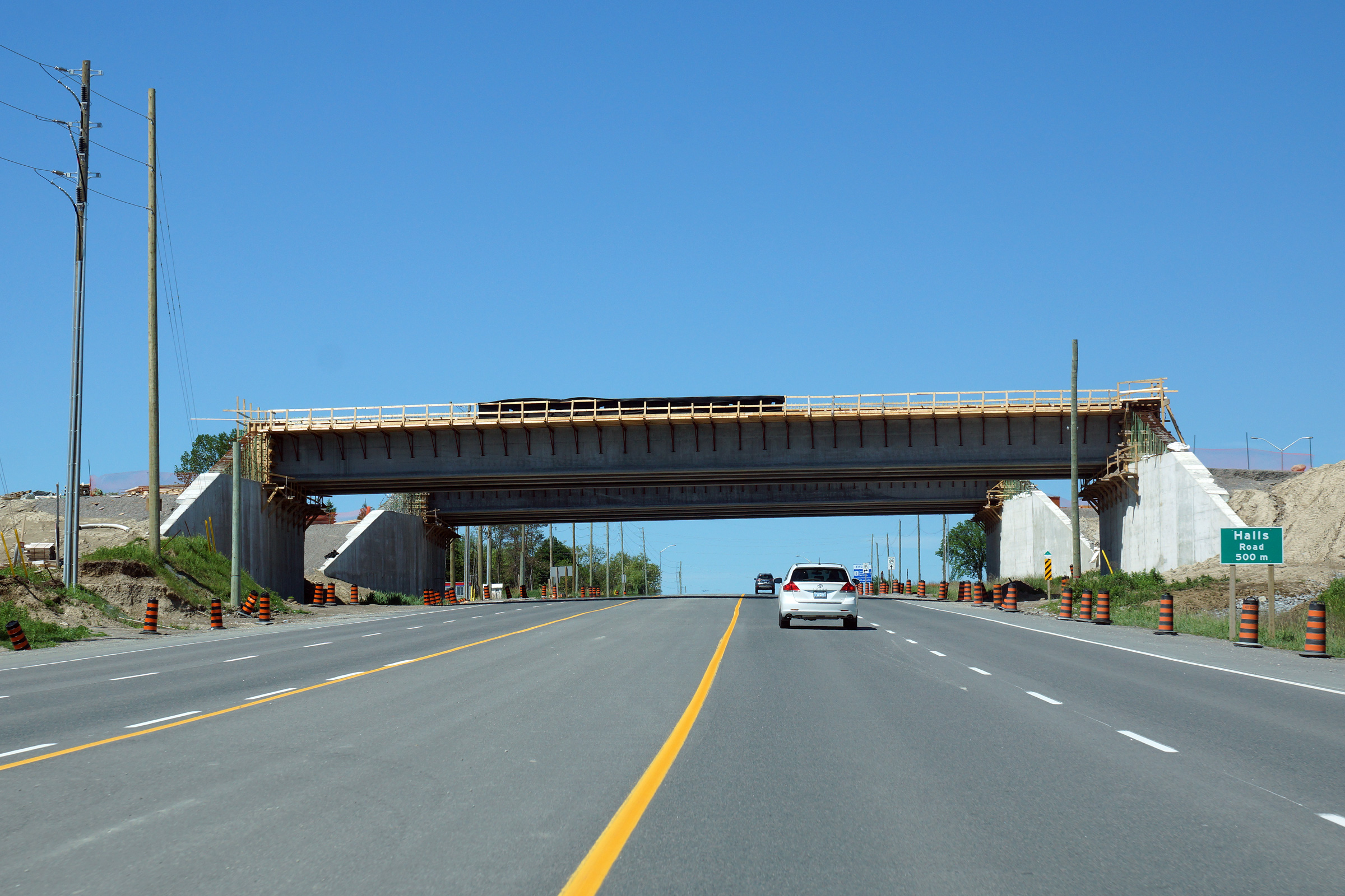 View looking westerly along Highway 7 in Ontario approaching the future Highway 412 Toll interchange.